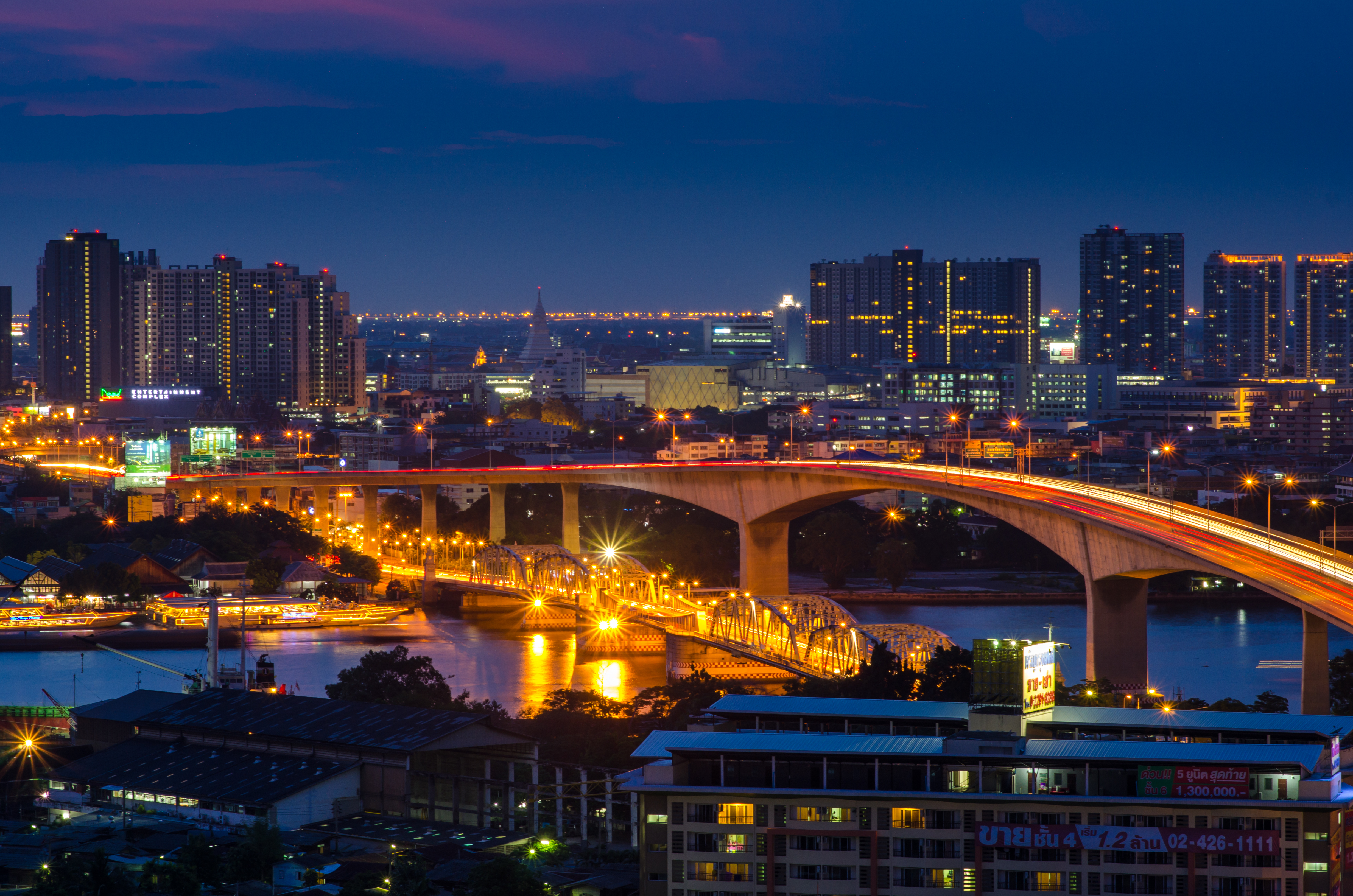 Krung Thep Bridge (lower) and Rama III Bridge (higher).